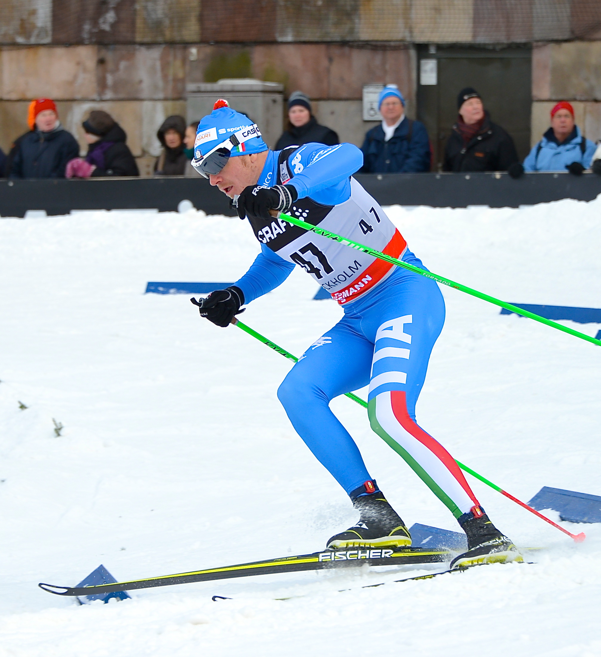 Dietmar Noeckler at Royal Palace Sprint in Stockholm March 20, 2013